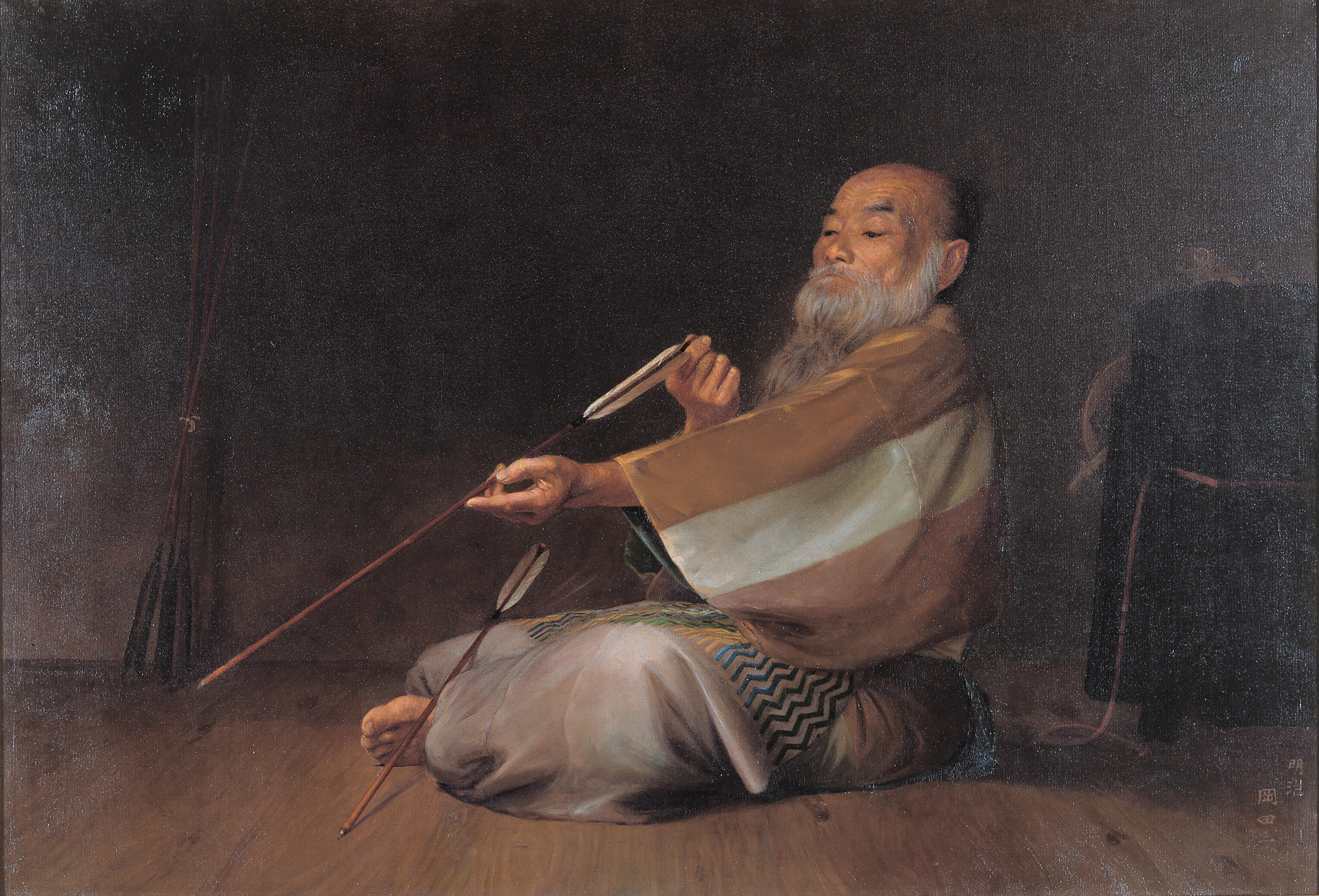 Examining an Arrow by Okada Saburōsuke, Saga Prefectural Museum, Saga, Saga, Japan